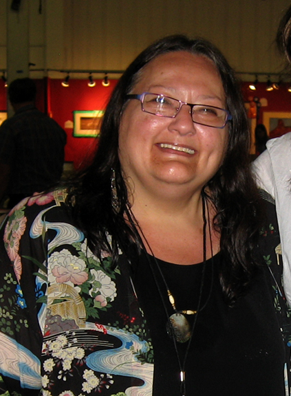 Suzan Shown Harjo, Cheyenne-Muscogee author and Native American rights activist